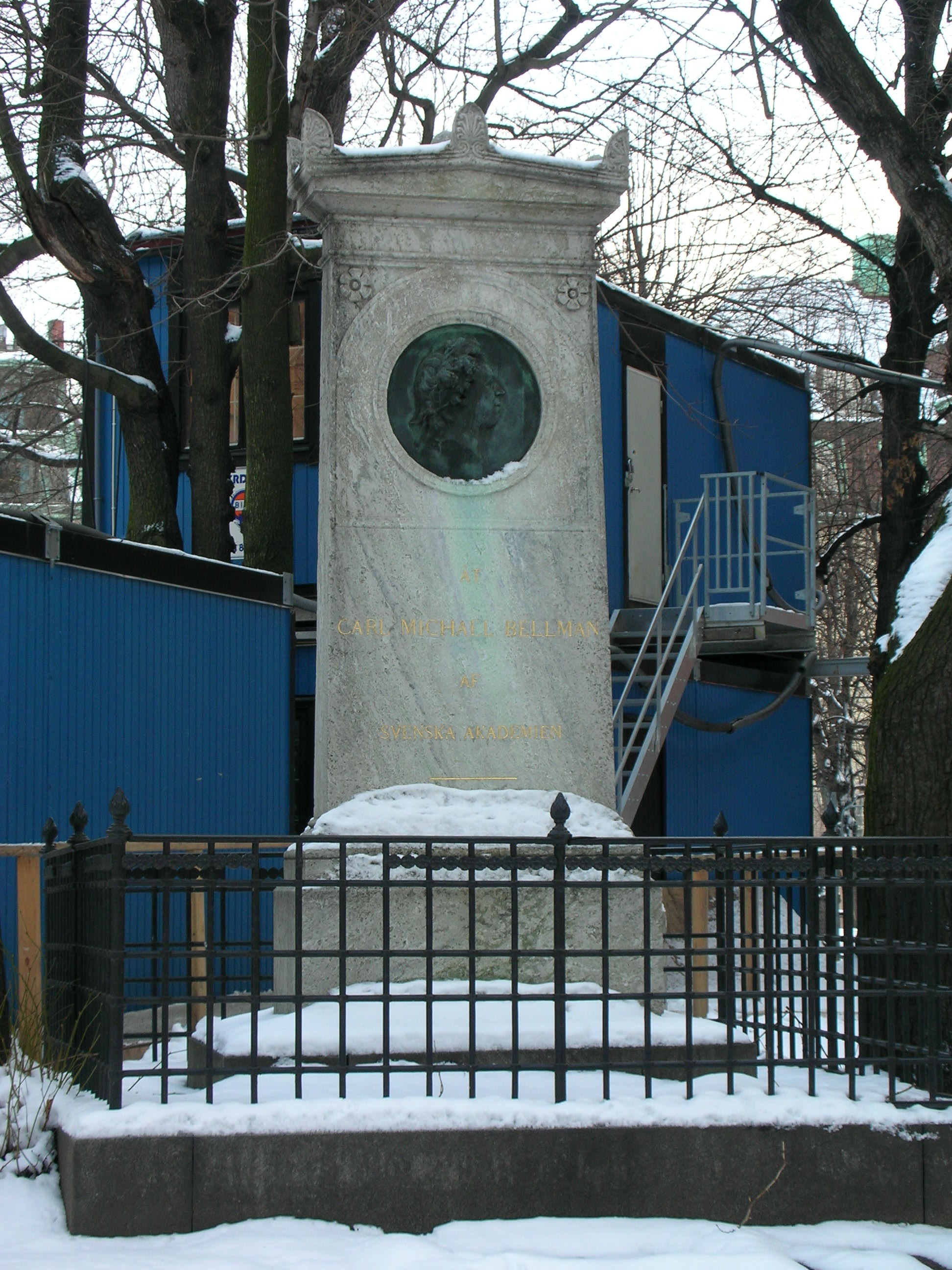 The memorial of Carl Michael Bellman at Klara kyrka in Stockholm, Sweden. The blue containers in the background are there due to the fact that Klara kyrka was being renovated at the time the picture was taken.